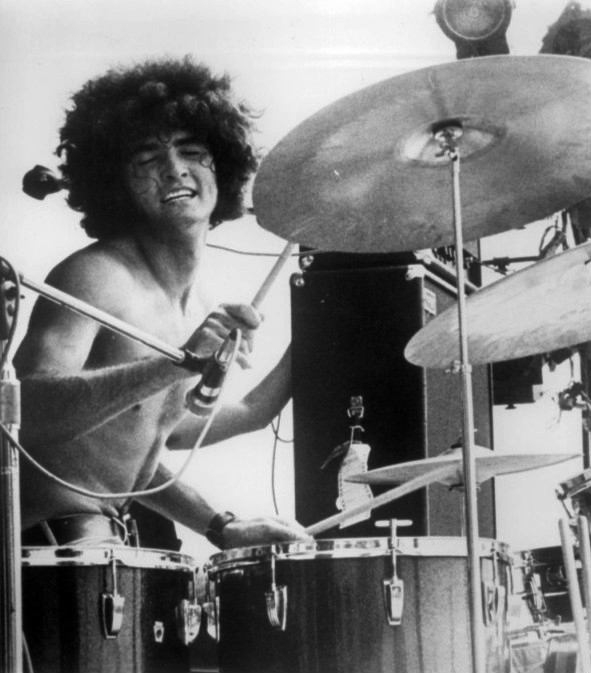 Publicity photo of Don Brewer, when he was the drummer for Grand Funk Railroad.